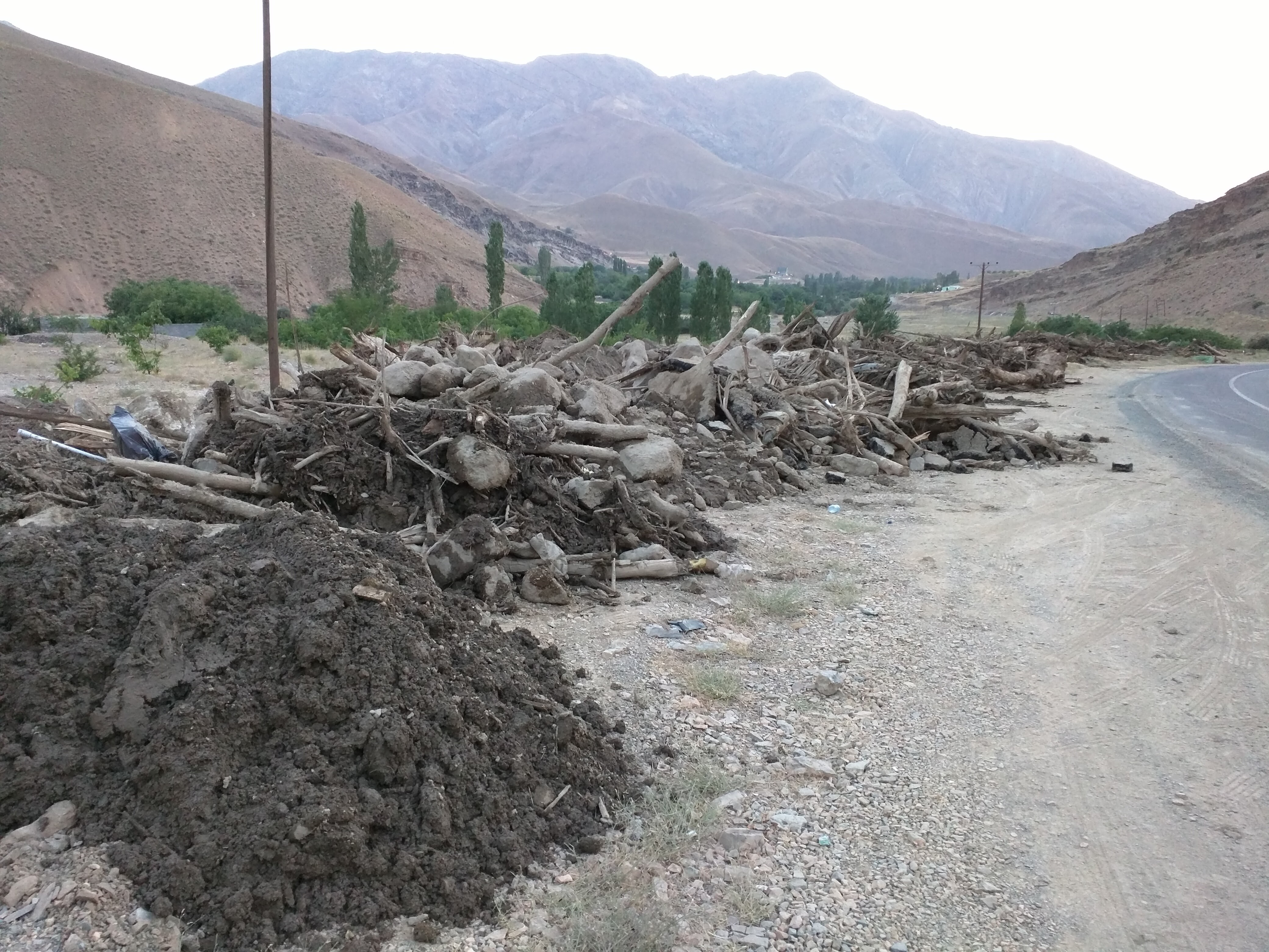 الوارها گل‌ها و … که توسط سیل به روستا آورده شده